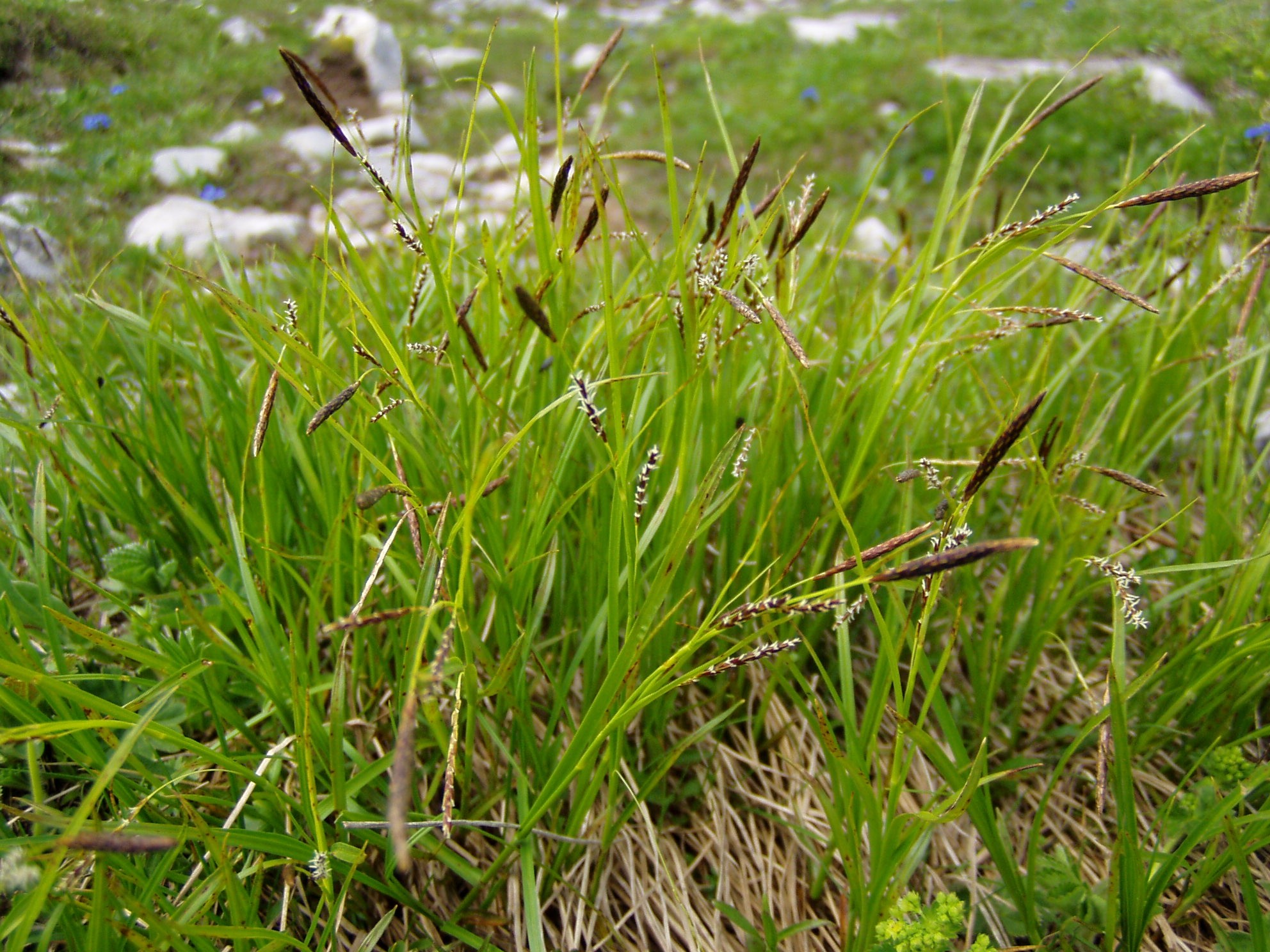 Carex sempervirens, photo taken at Rax, Lower Austria. Approx. 1600 m